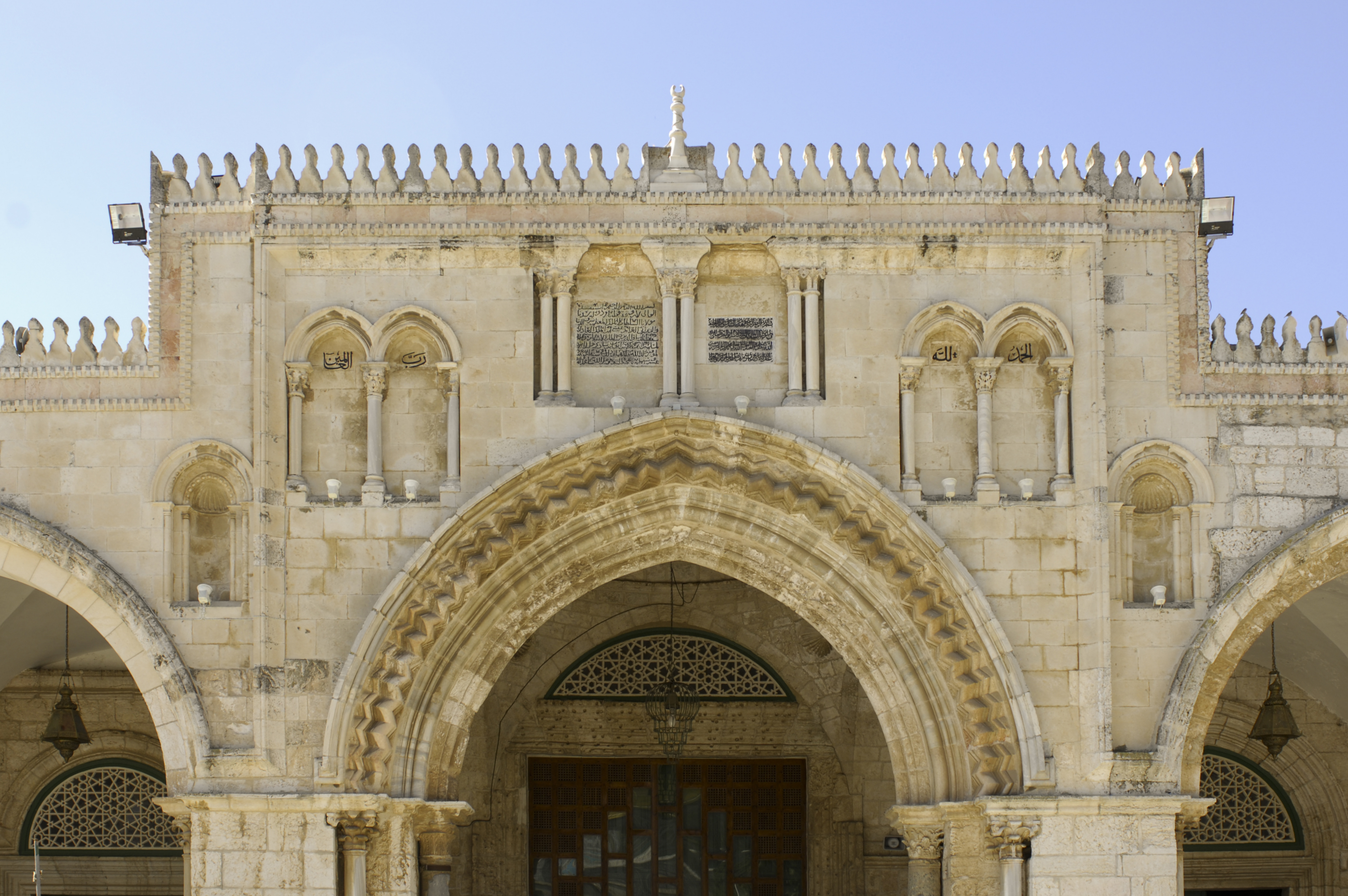 Al-Aqsa Mosque (Arabic:المسجد الاقصى)